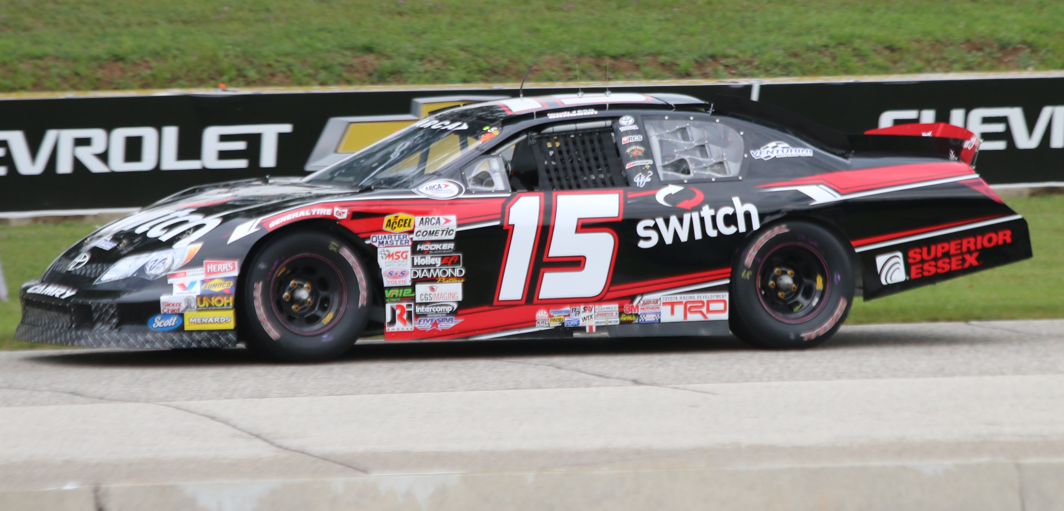 The ARCA Racing Series car of Noah Gragson at the 2017 Road America 100 race.